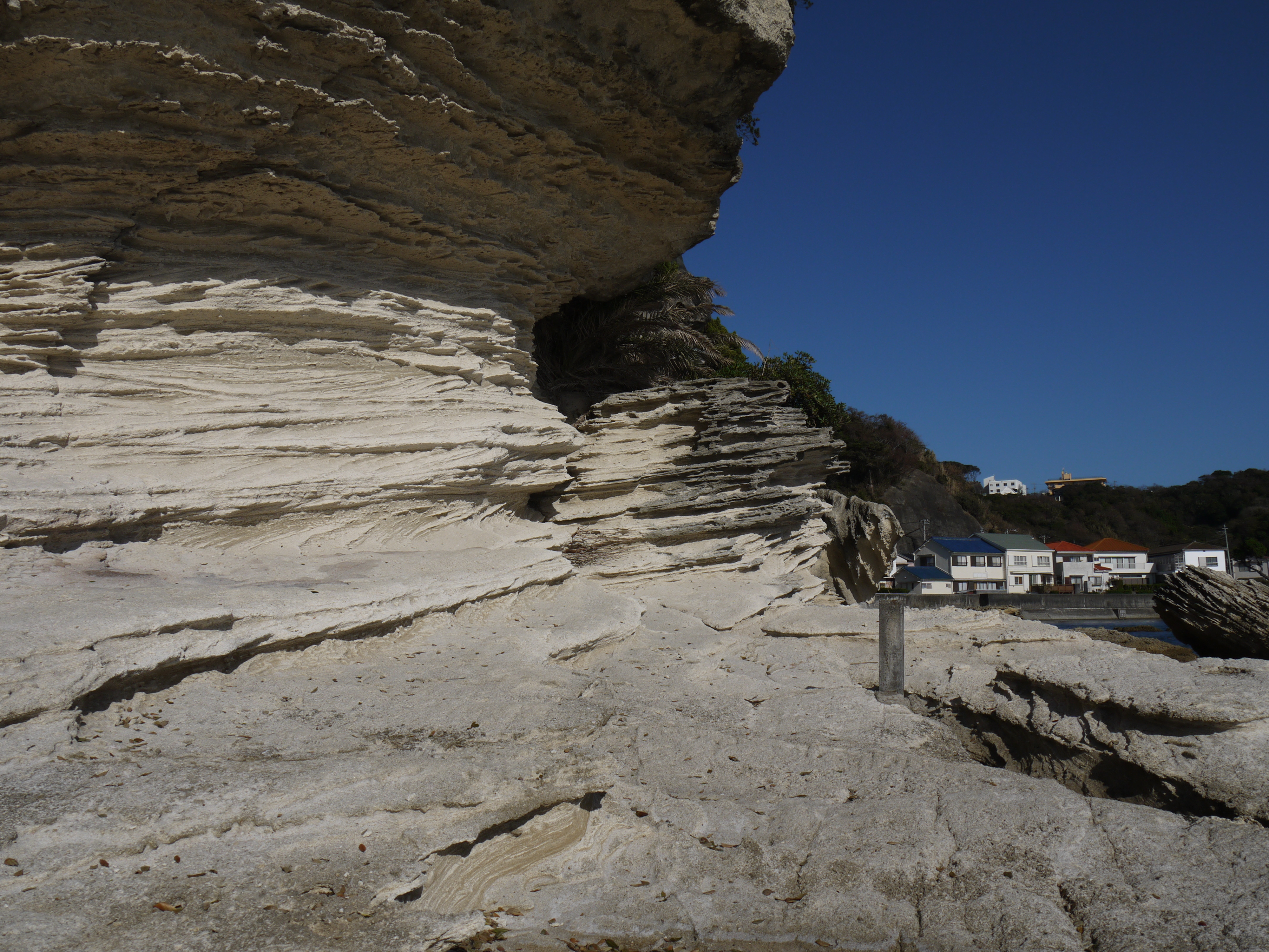 Cross-bedding at Bentenjima in Simoda, Shizuoka Prefecture, Japan.